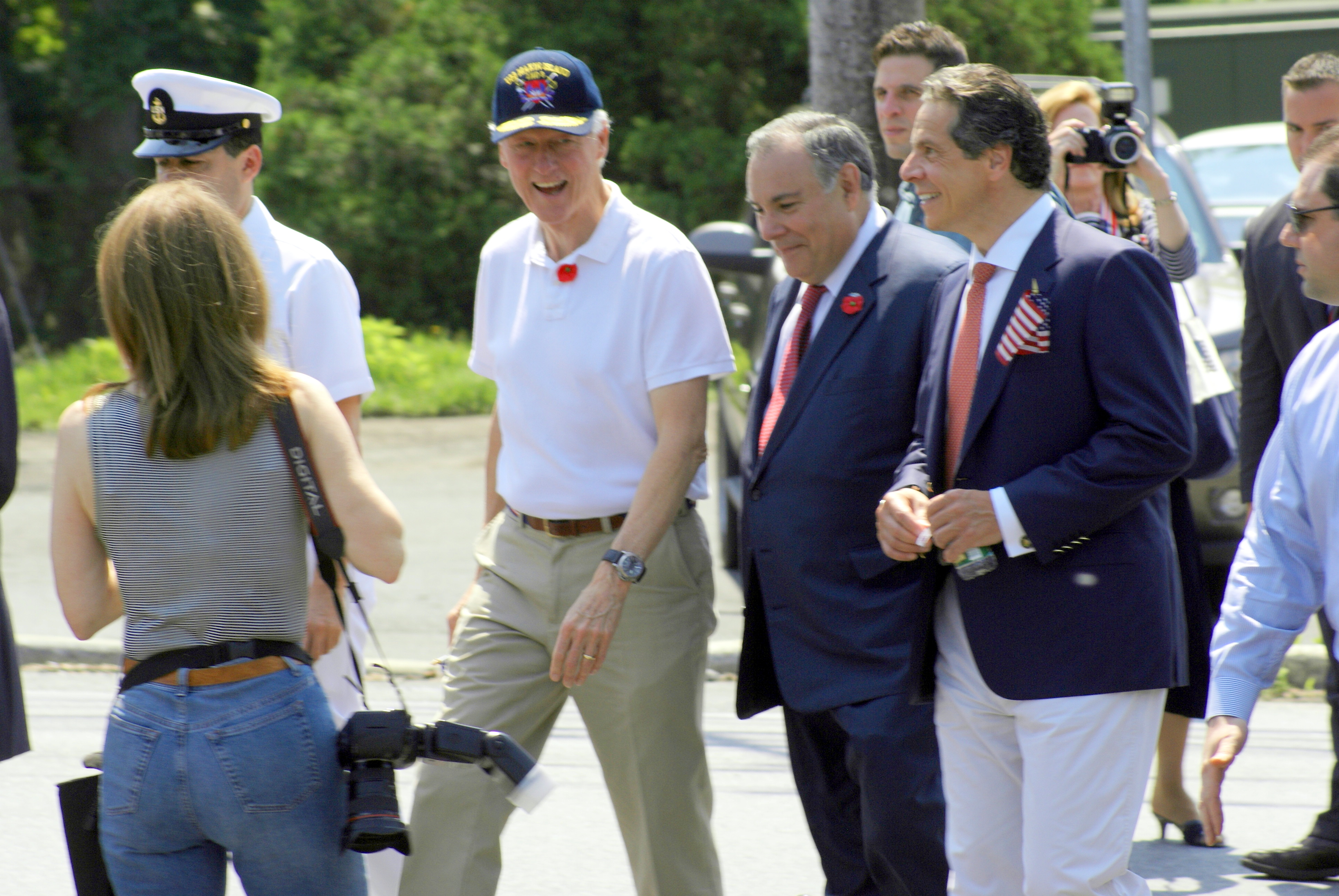 Former U.S. President William J. Clinton (left) and New York Governor Andrew Cuomo (right), Democrats, and residents of New Castle, New York, walk in the 2012 Chappaqua Memorial Day parade with GOP-State Assemblyman Robert Castelli (center), who represents their hometown in the State Legislature.